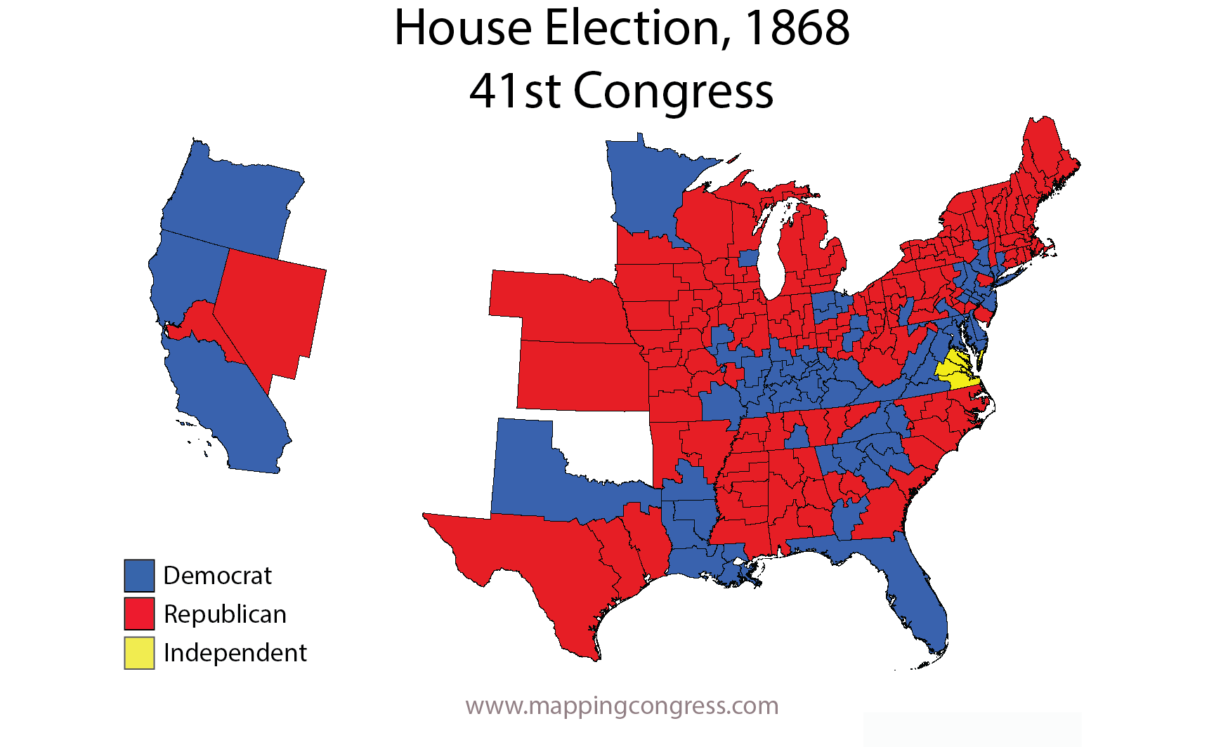 Map of U.S. House elections results from 1868 elections for 41st Congress